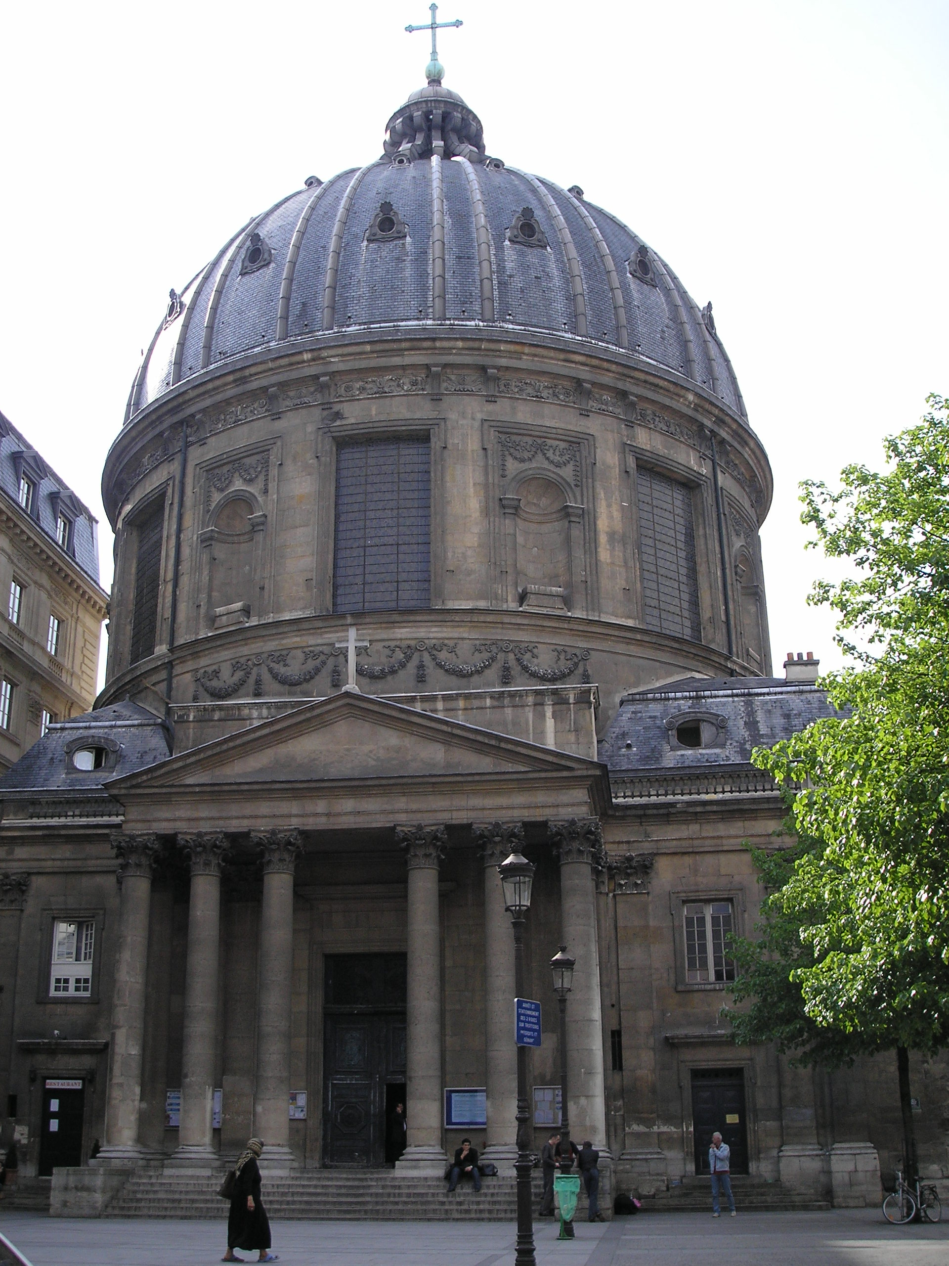 Exterior view of the Chapelle de l'Assomption in Paris, popularly known as the Polish Church. In rue Saint-Honoré.